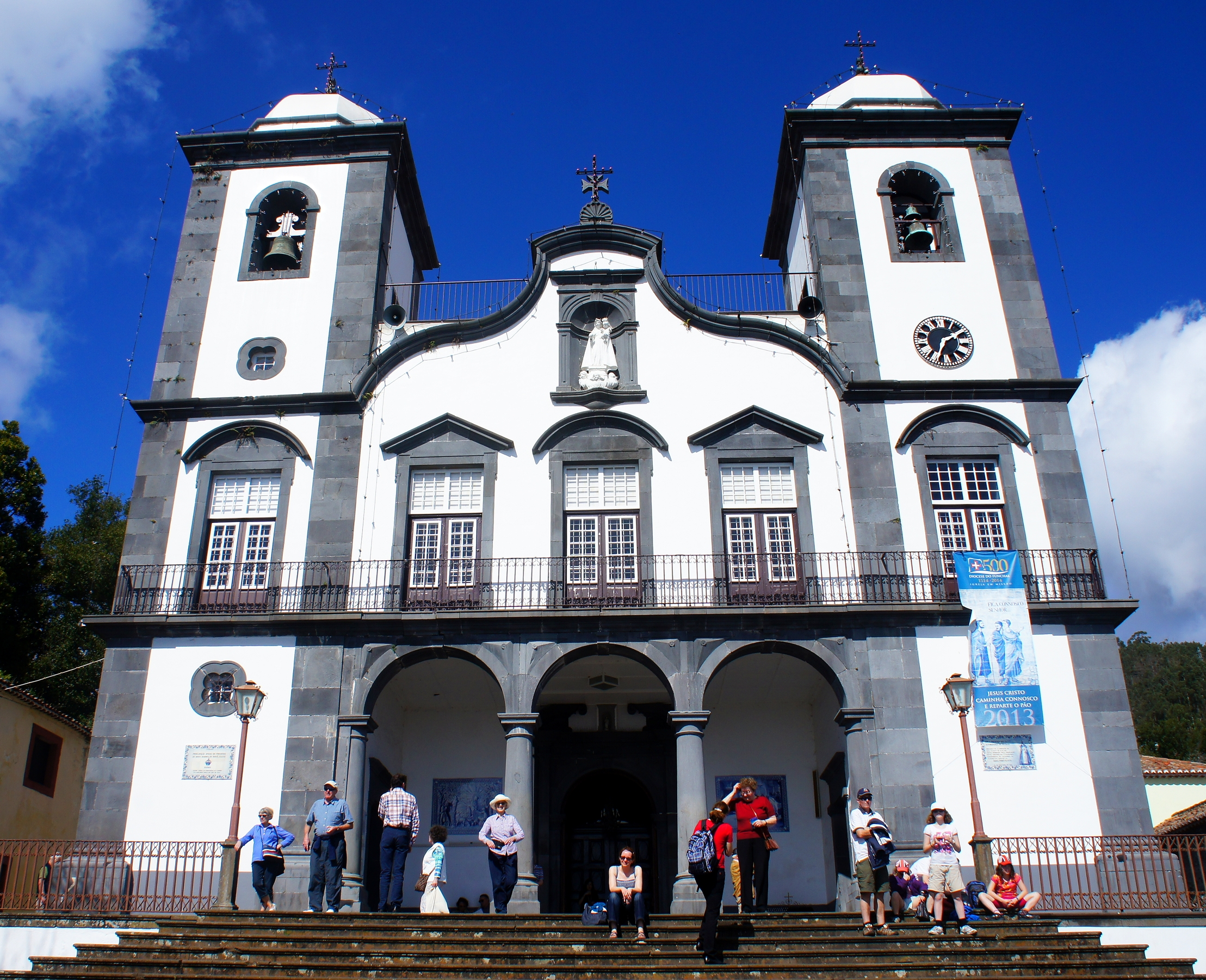 Our Lady of the Mountain Church in Monte (Madeira, Portugal).